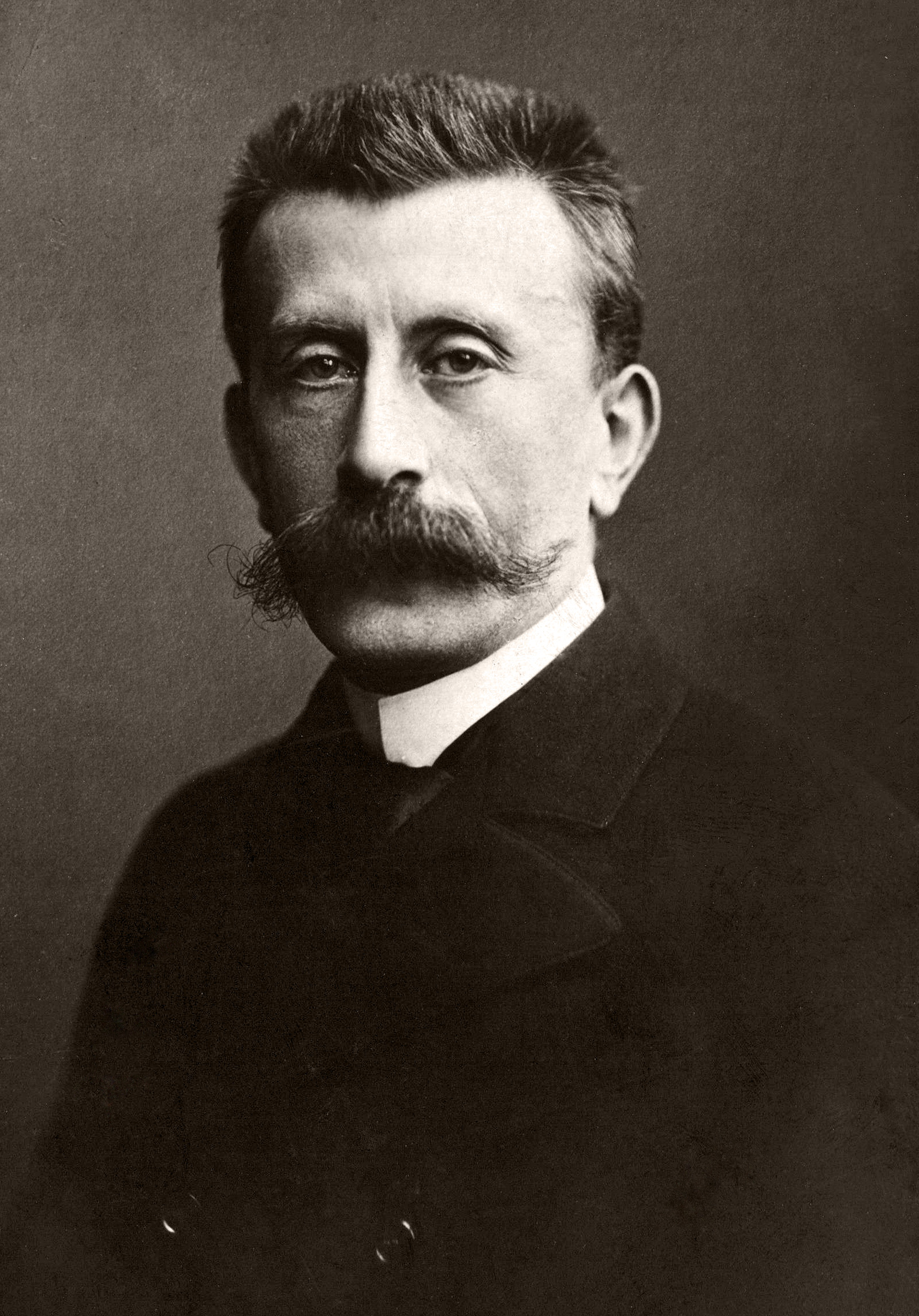 Picture of Moritz Moszkowski